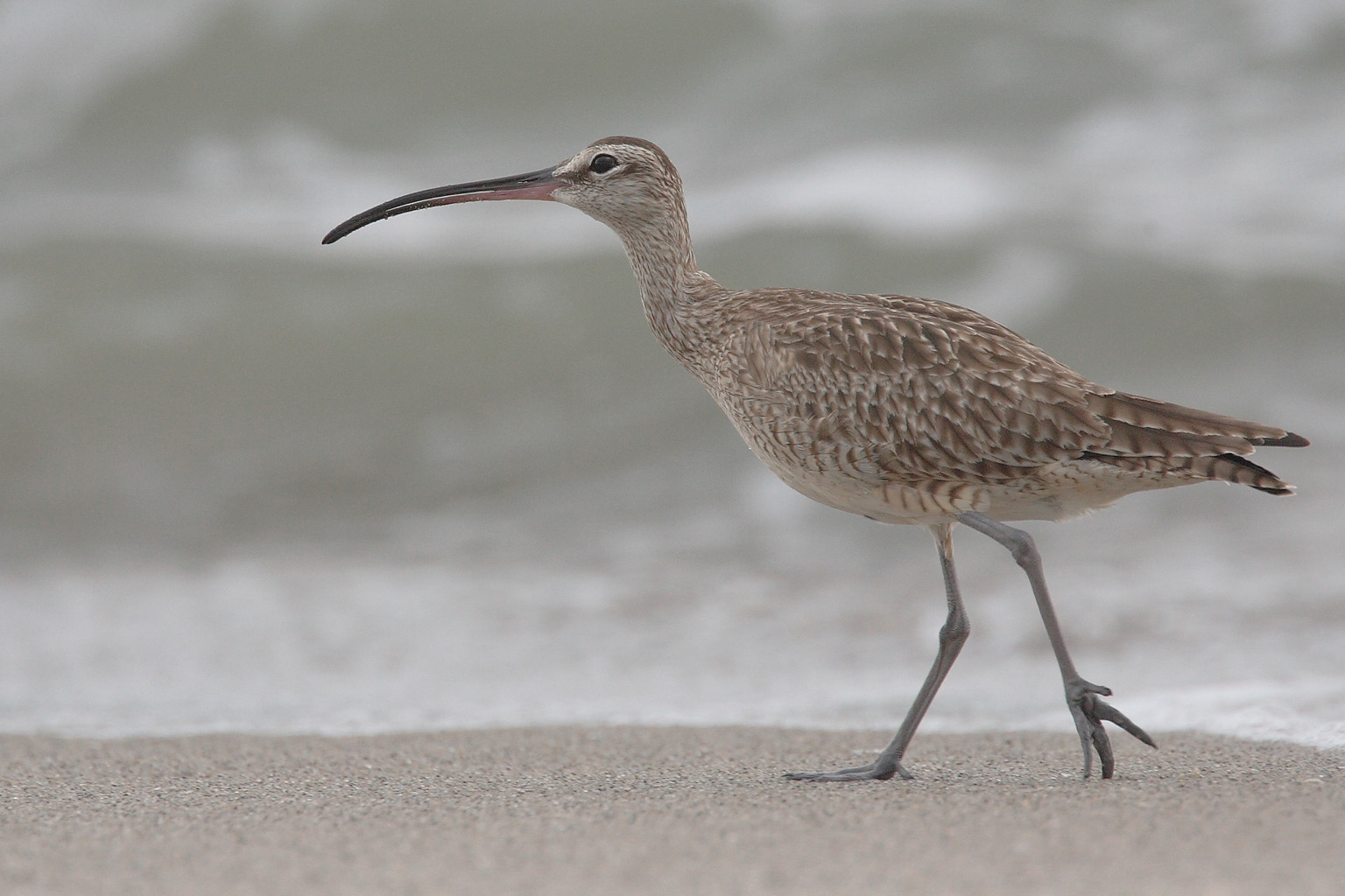 Whimbrel (Numenius phaeopus), Farallon, Panama, 2005 December.